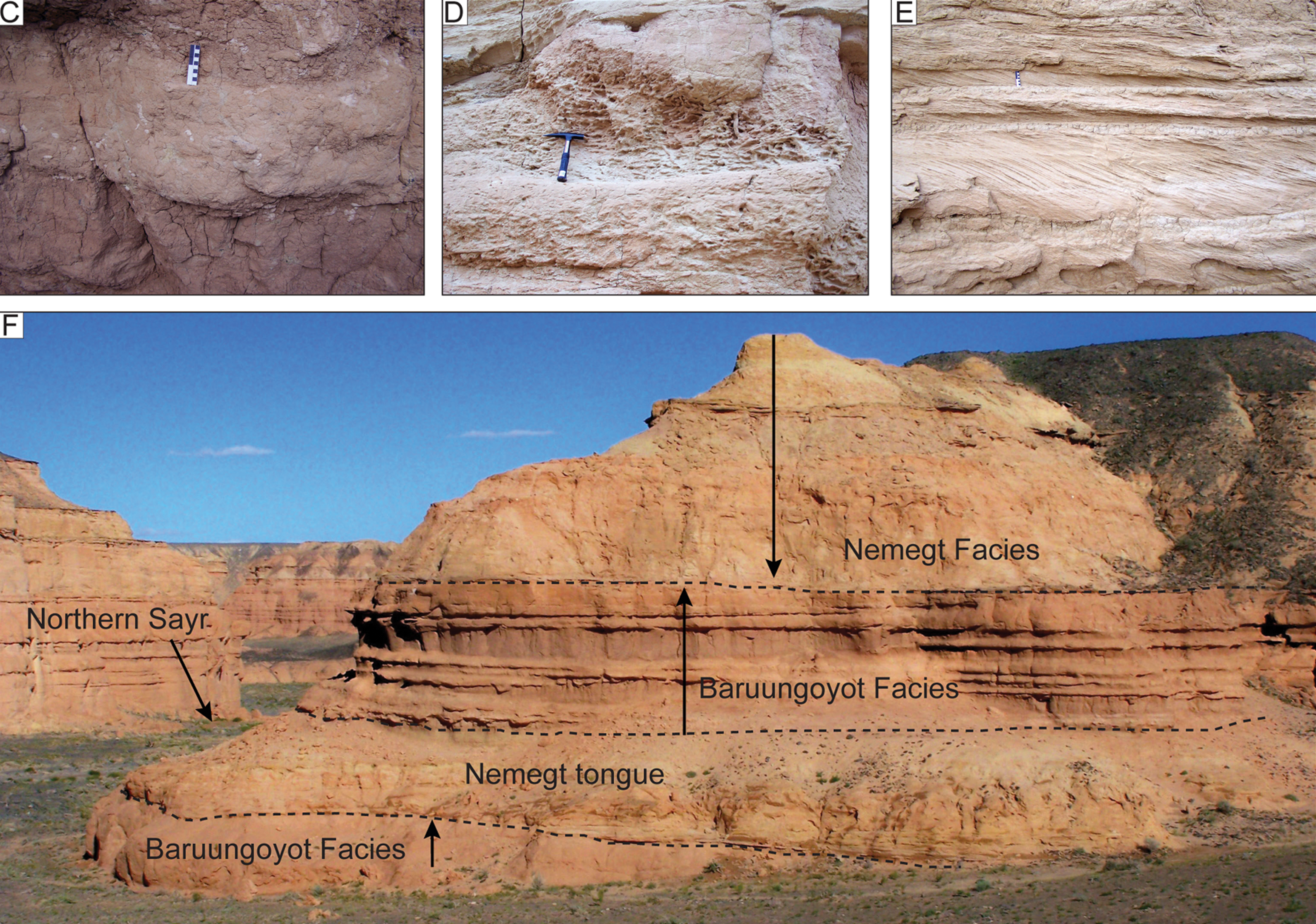 C, In-situ and partially reworked caliche glaebules and concretions, Baruungoyot Formation. D, tubular burrow fills interpreted as nonmarine invertebrate feeding traces, Baruungoyot Formation. E, cross-bedded deposits in the basal deposits of the Nemegt Formation. F, photograph showing the interfingering contact between the Baruungoyot and Nemegt formations in the Northern Sayr (litho-log c). Nemegtomaia specimen MPC-D 107/15 was collected just below the Nemegt tongue deposits.